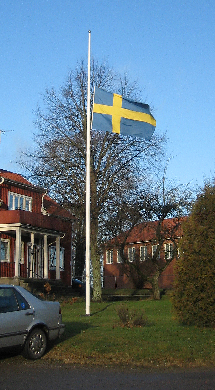 Swedish flag at half staff